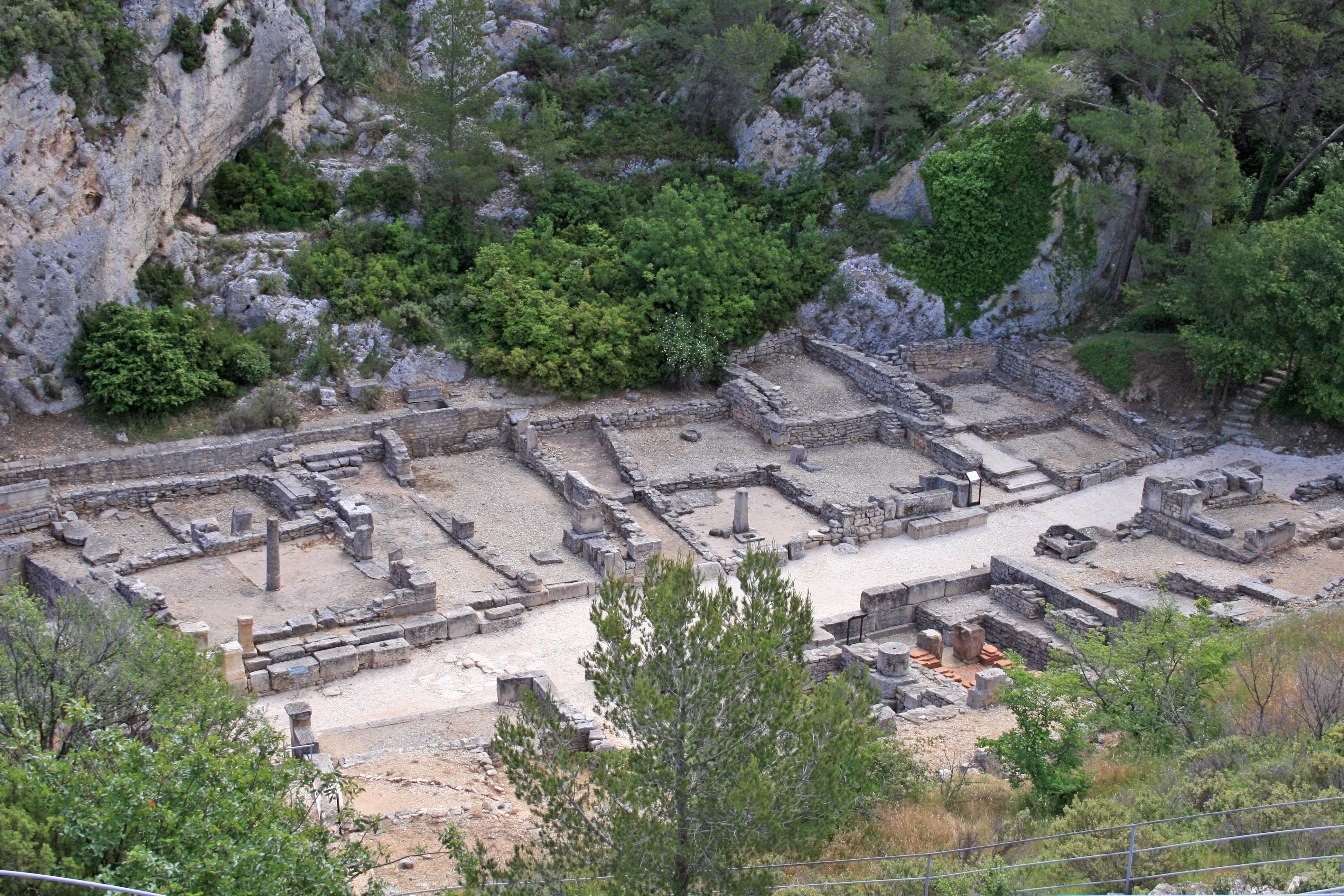 Glanum from uphill